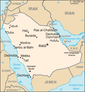 Map of Saudi Arabia with German Labels